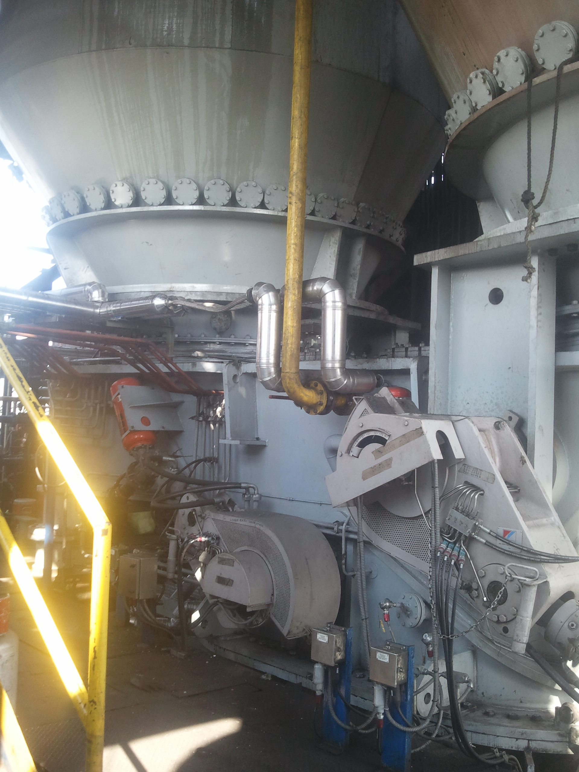 Hoppers and material flow gate for feeding material into the blast furnace. This picture shows the lower material valves, of a Bell Less Top with parallel hoppers.